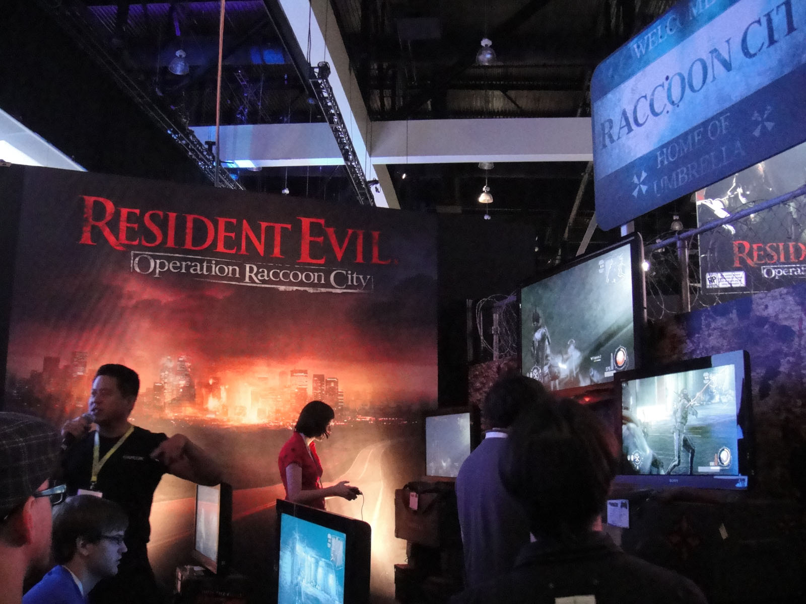 This photo was taken on June 7, 2011 in Dowtown Carrier Annex, Los Angeles, CA, US, using a Sony DSC-T900.